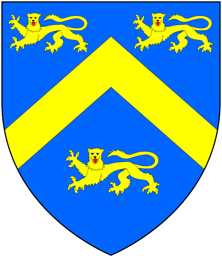 Arms of Smythe of the City of London: Azure, a chevron between three lions passant guardant or. As seen on mural monument to Katherine Scott, in St Mary's Church, Nettlestead, Kent. She was baptised Katherine Smith on 06 Dec 1561 at All Hallows Lombard Street, City of London. Katherine was recorded in the Smythe pedigree taken during the Visitation of London in 1568 and the Visitation of Kent in 1619 as the daughter of Thomas Smythe and Alice Judde. Thomas Smythe or Smith of London, Ashford and Westenhanger, Kent, (1522–1591) was the collector of customs duties (also known as a "customer") in London during the Tudor period, and a Member of Parliament for five English constituencies. His son and namesake, Sir Thomas Smythe (died 1625), was the first governor of the East India Company, treasurer of the Virginia Company, and an active supporter of the Virginia colony.